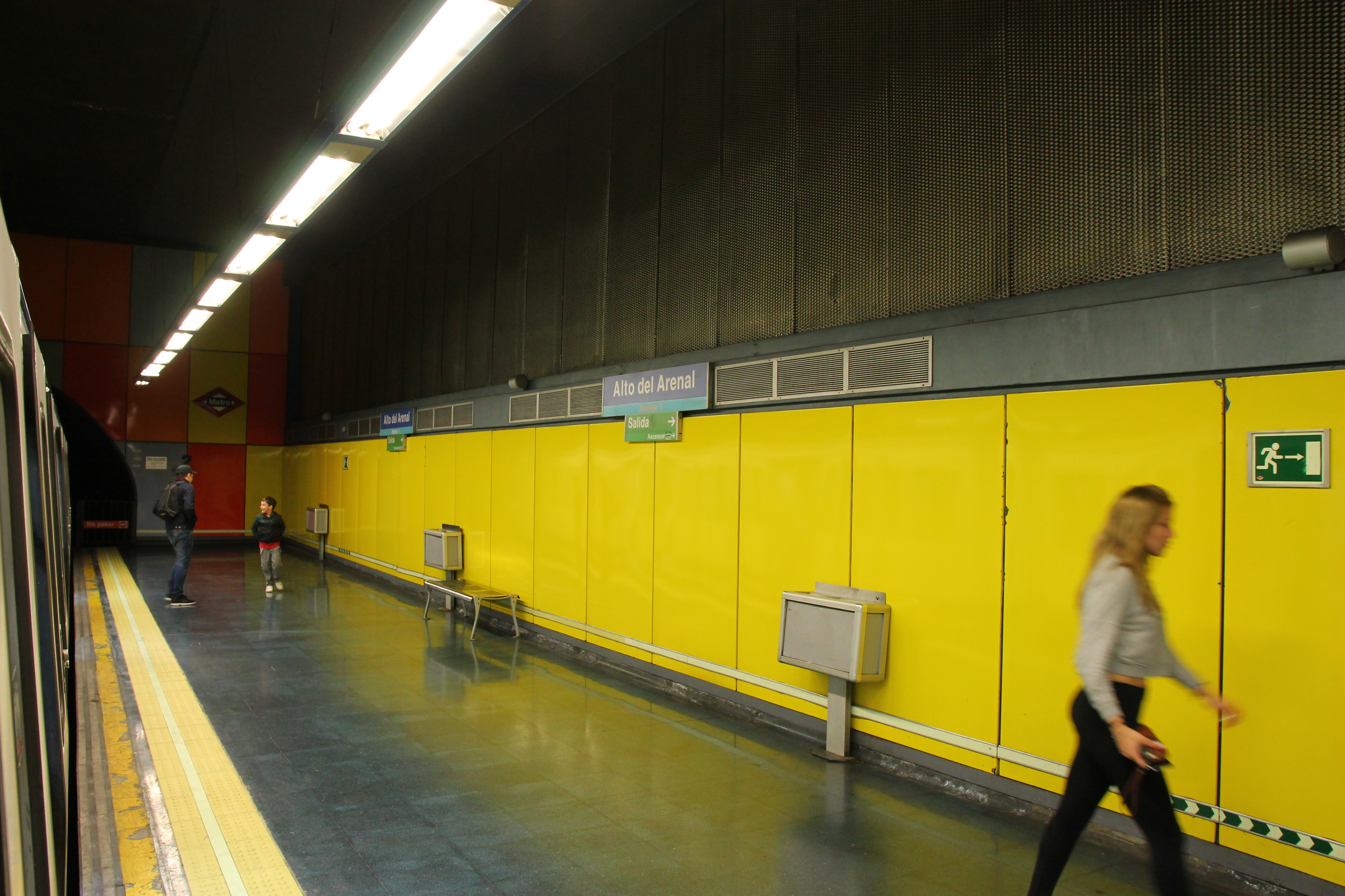 Alto del Arenal station. Madrid Metro.